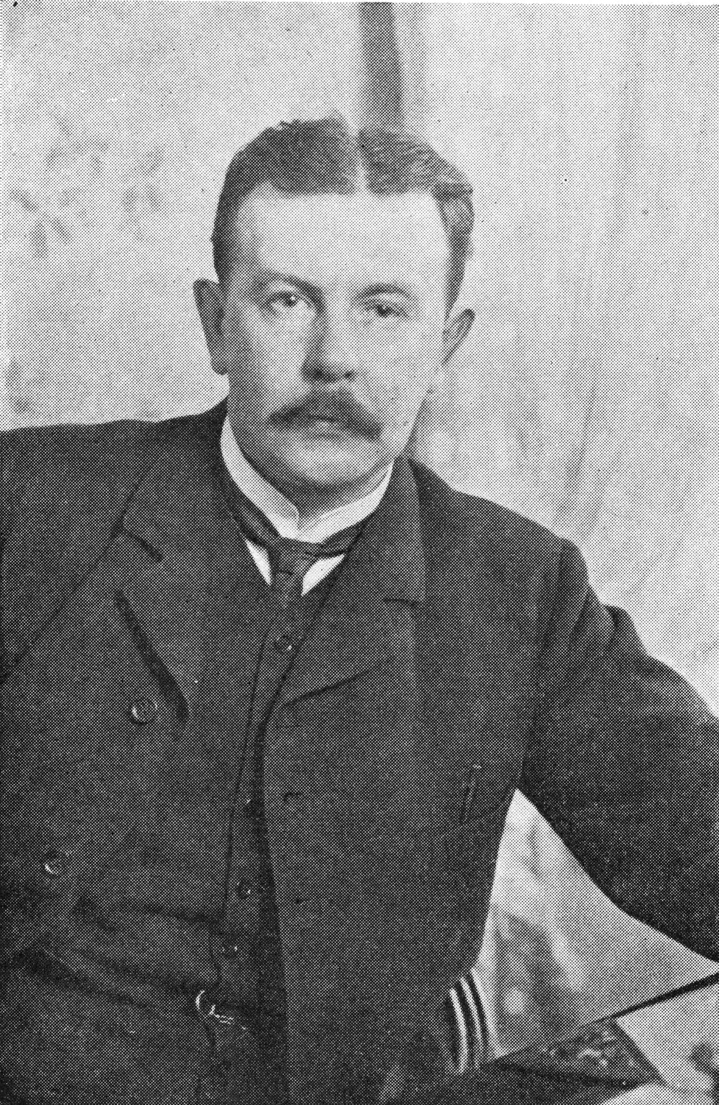 Swedish poet Bo Bergman.